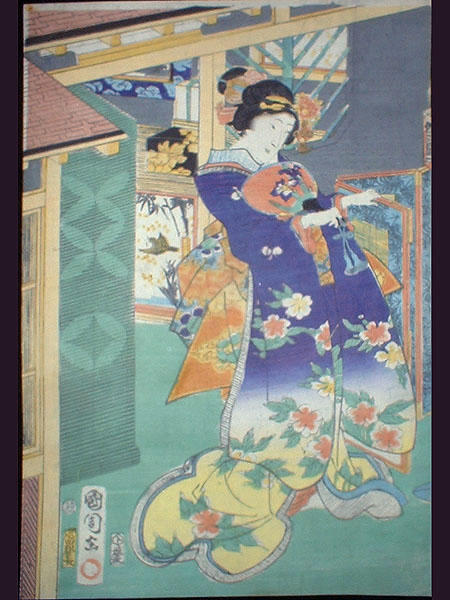 Untitled scene of a woman in a long flowing kimono.